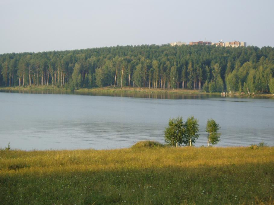 View over the lake towards the Russian town of Zarechny on the hills.